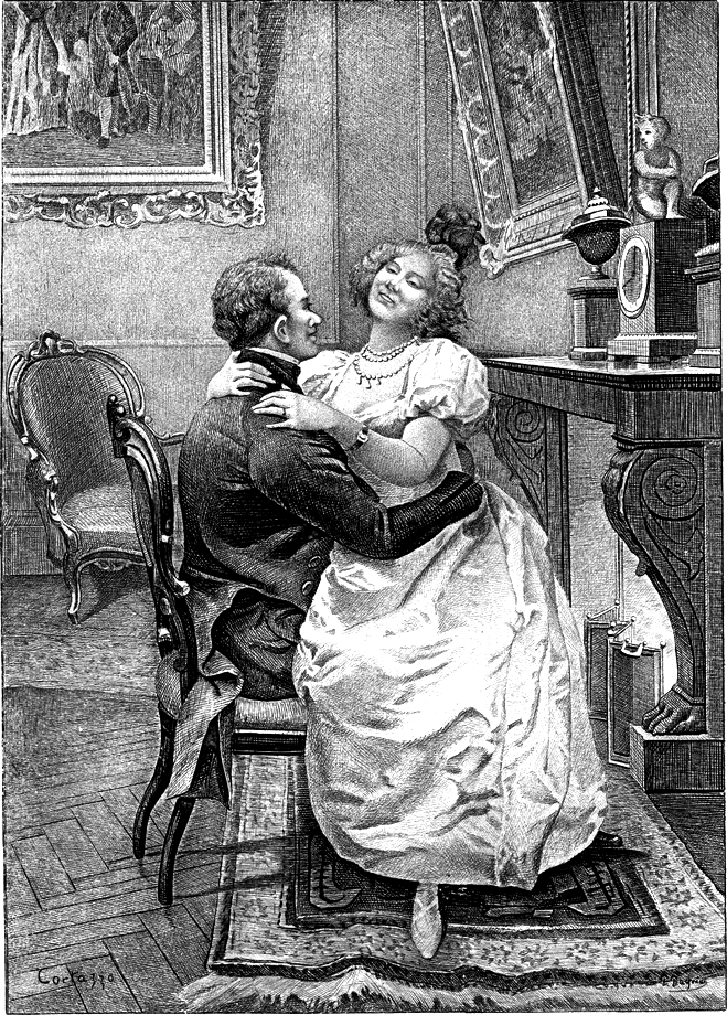 Illustration of Honoré de Balzac's Petty Worries of Conjugal Life (1830-1846): The Husband’s Surrender.